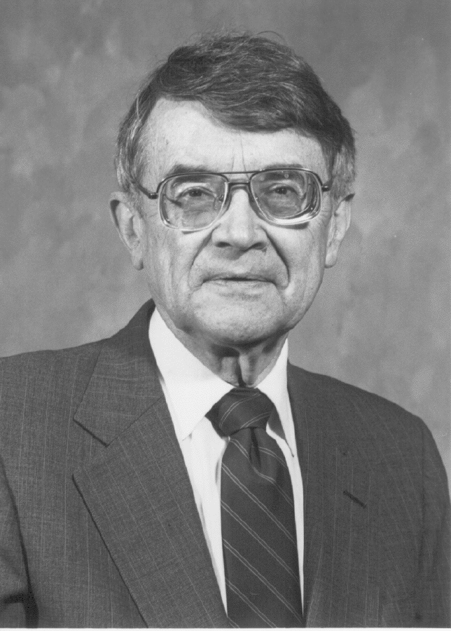 Image of Gordon P. Eaton (born 1929), an American geologist. President of the Iowa State University, 1986-1990. Twelfth director of the United States Geological Survey, 1994–1997.